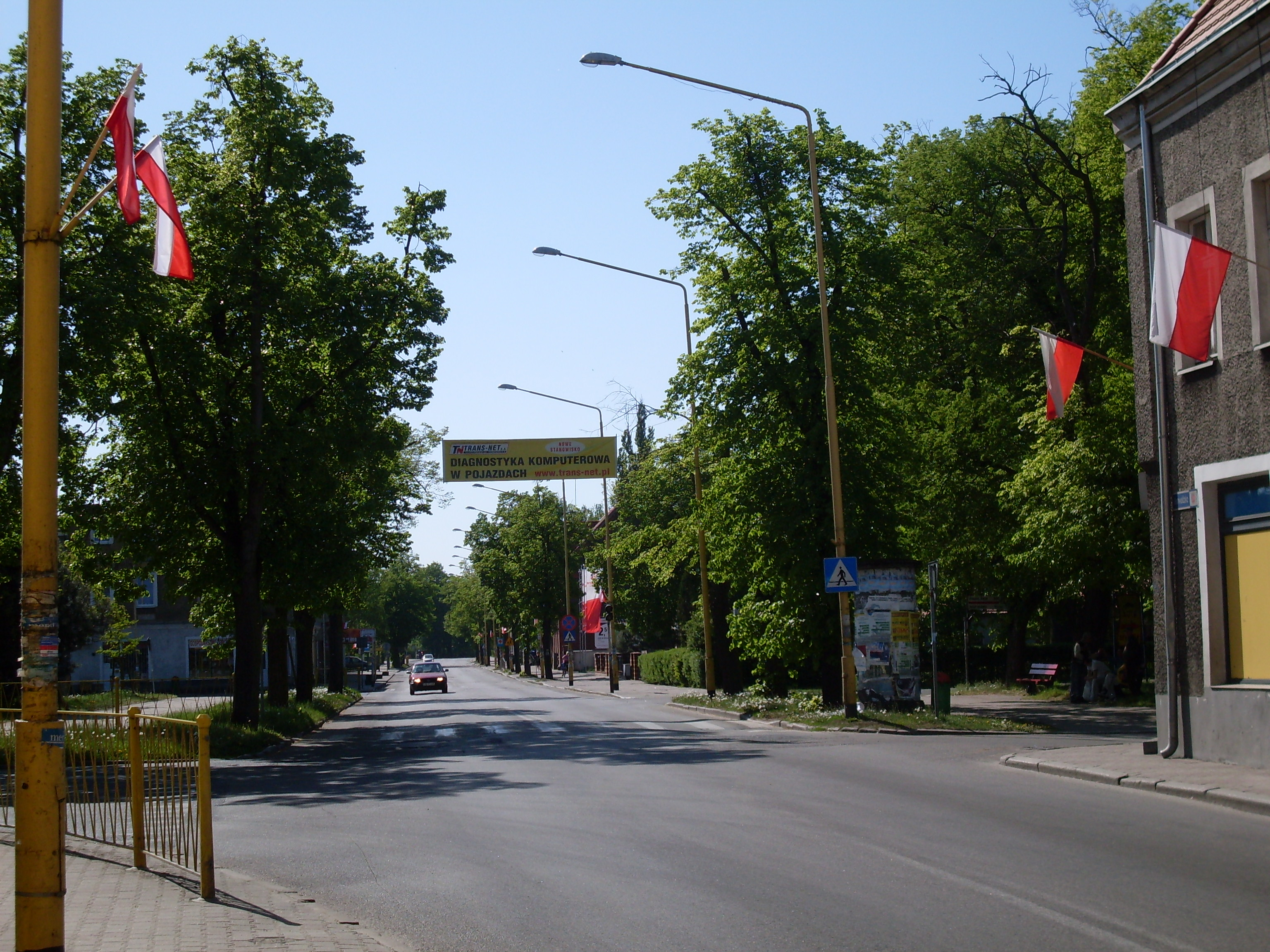 Grunwaldzka Street in the Old Town of Police, Poland